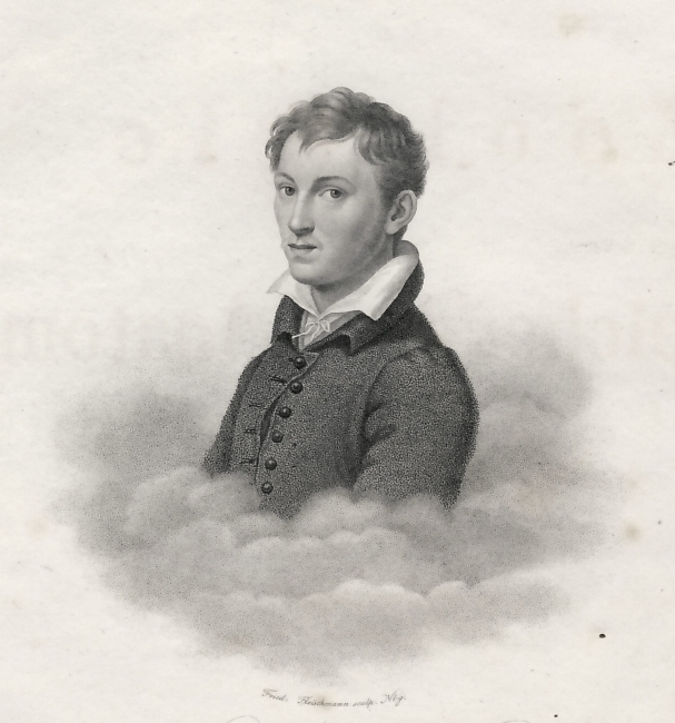 Portrait of Heinrich Kuhl (1797-1821), drawing from Friedrich Fleischmann (1791-1834)